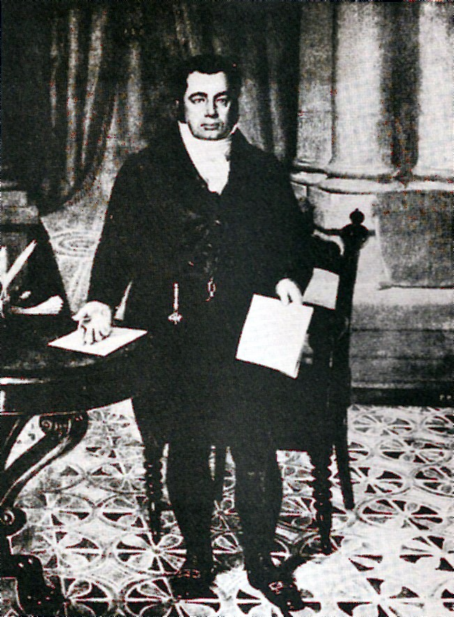 First President of Argentina Bernardino Rivadavia (1826-1827). Died 1845.